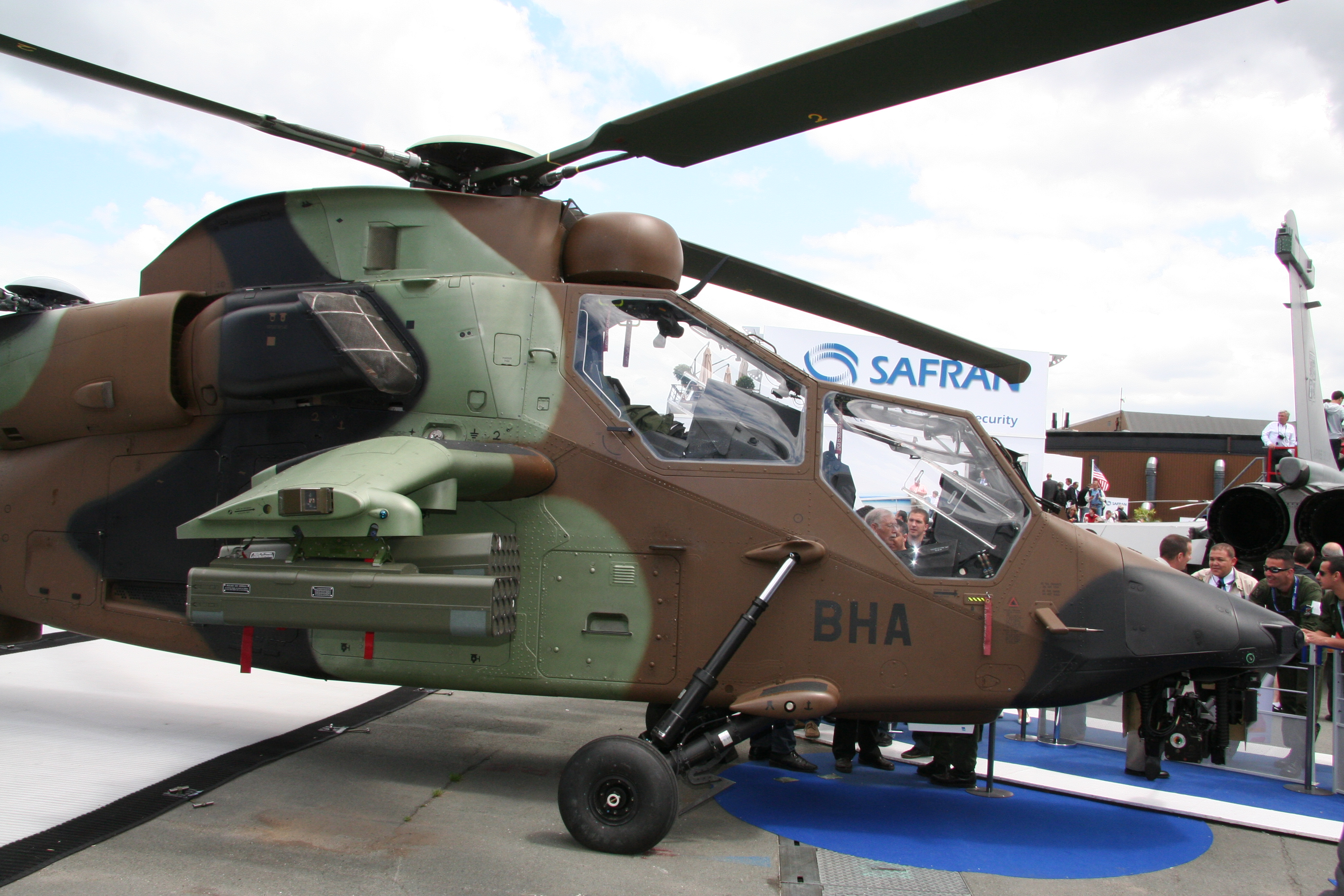 Eurocopter EC-665 Tigre - Paris Air Show 2009